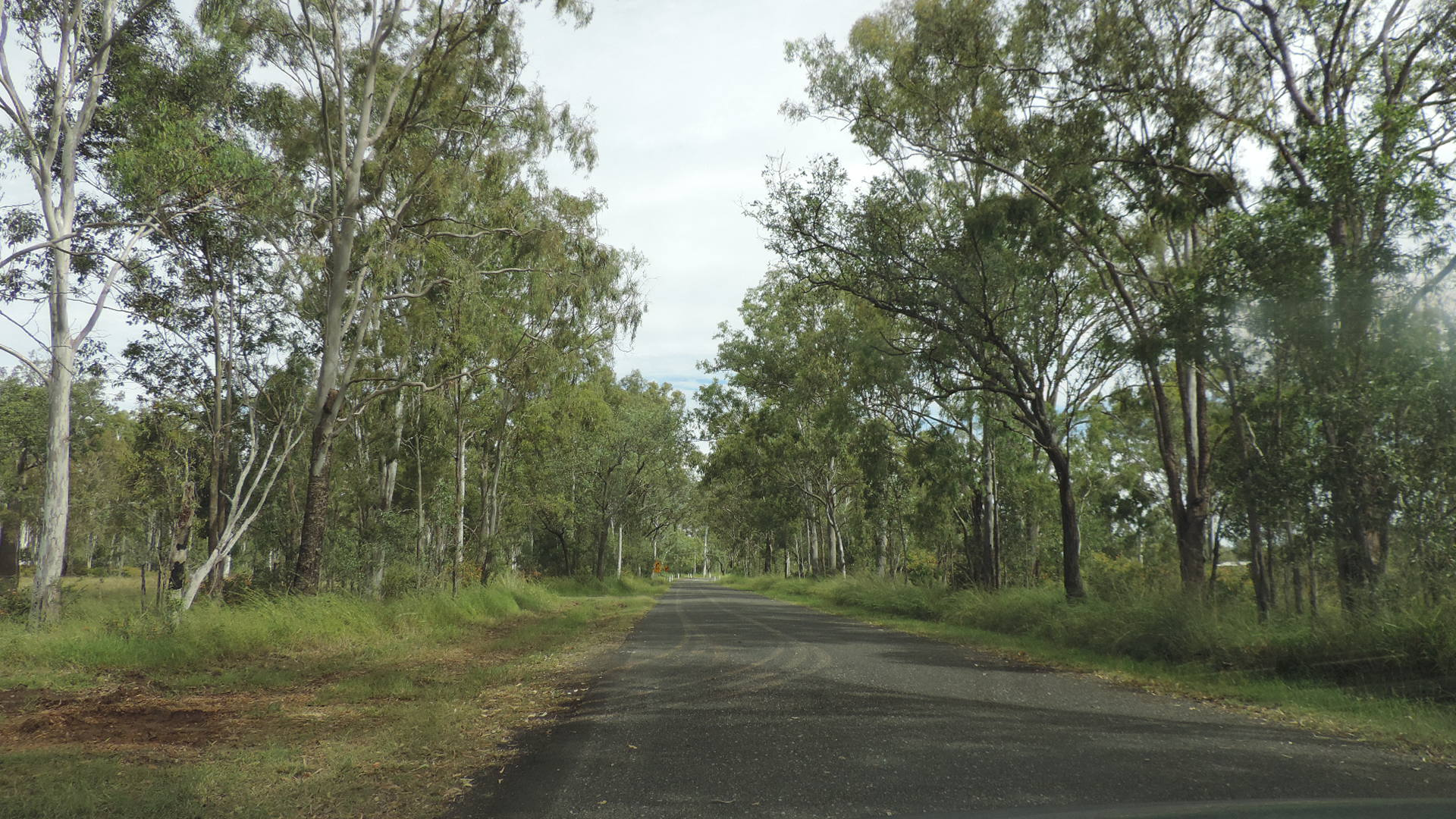 Rural scenery, Gentle Annie Road, Ambrose, 2014